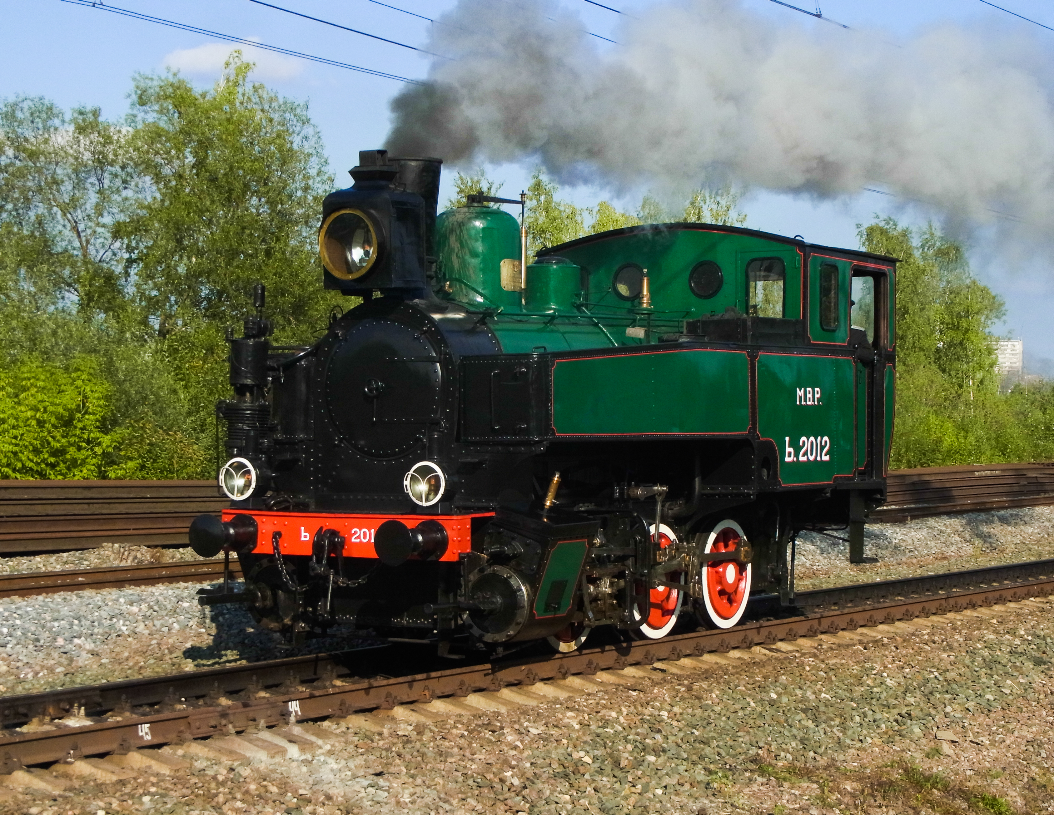 Steam locomotive Ь 2012 at train parade during Expo 1520 railway exhibition in 2017 on railway test circuit in Shcherbinka, Moscow, Russia